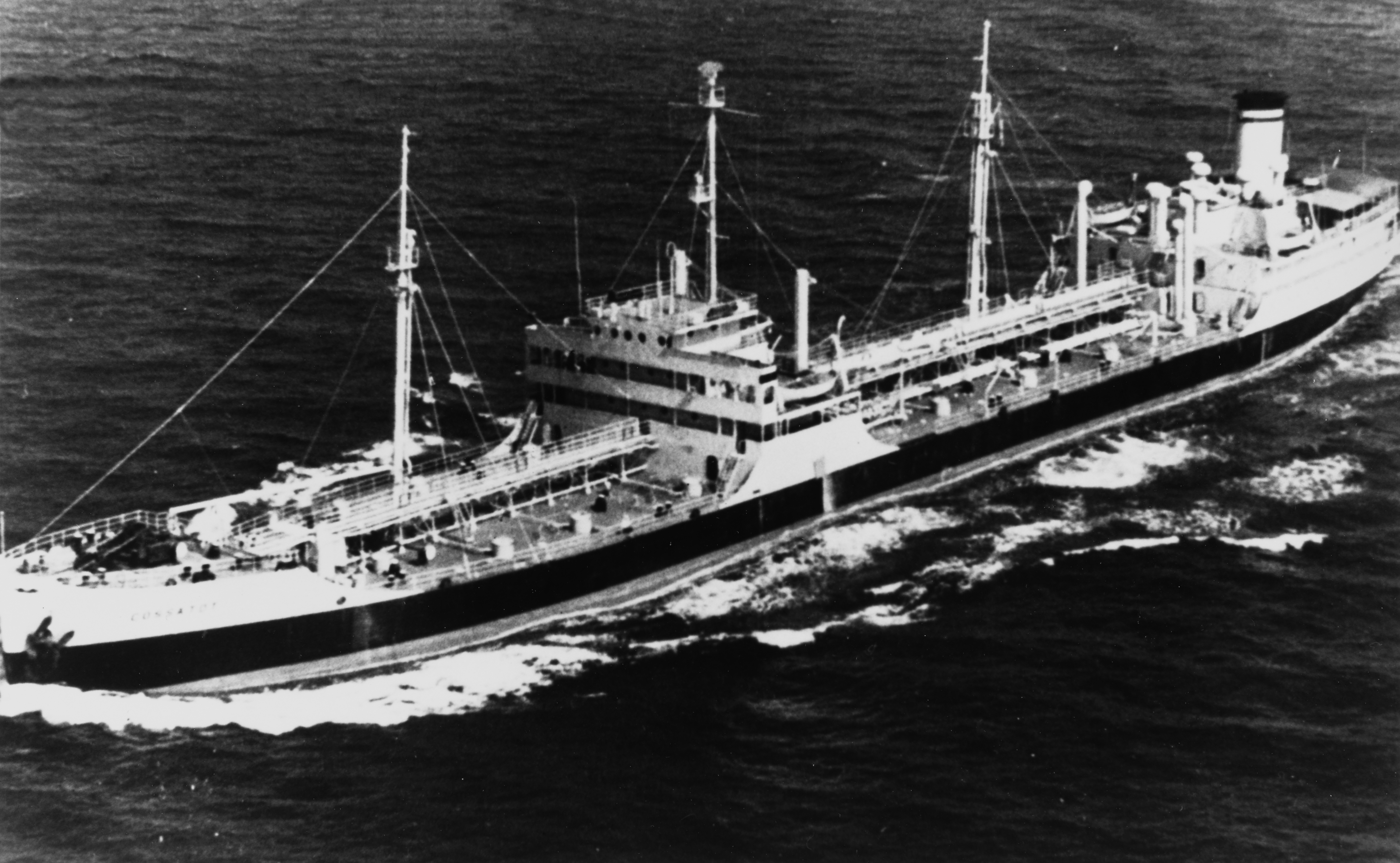 The U.S. Military Sea Transportation Service fleet oiler USNS Cossatot (T-AO-77) underway in the 1950s.